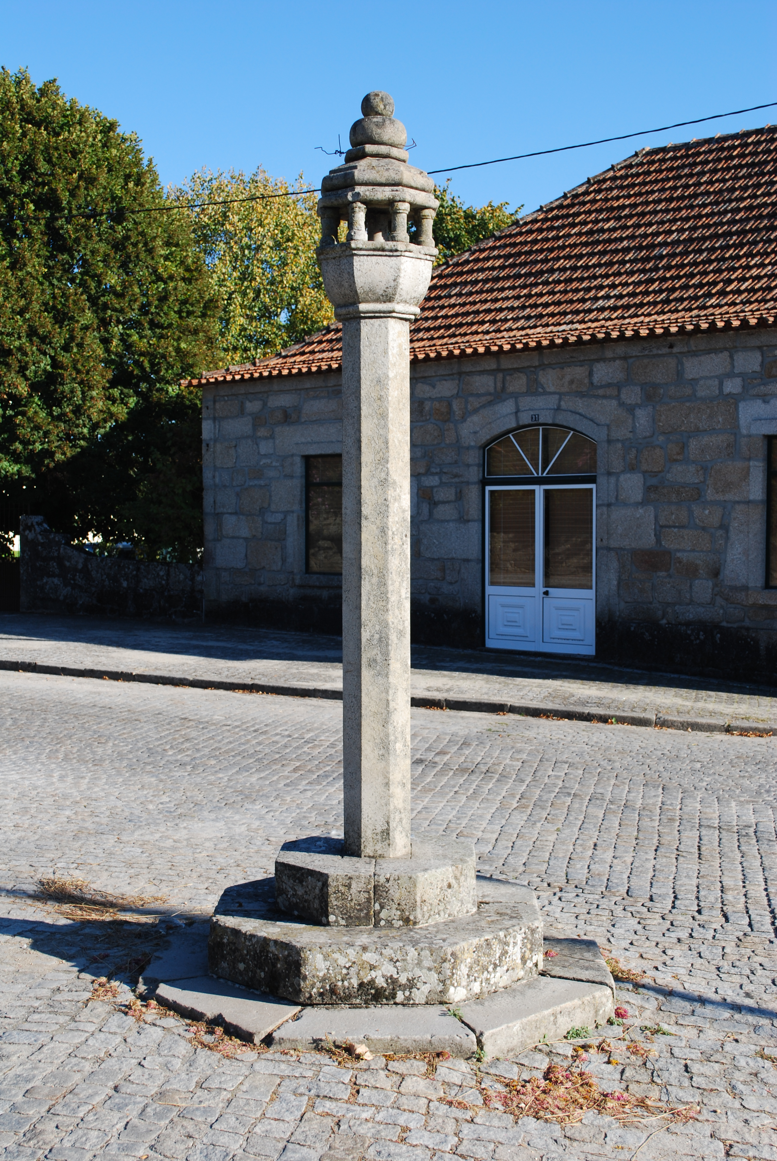 This file was uploaded for Wiki Loves Monuments in Portugal with the unique identifier 73637.